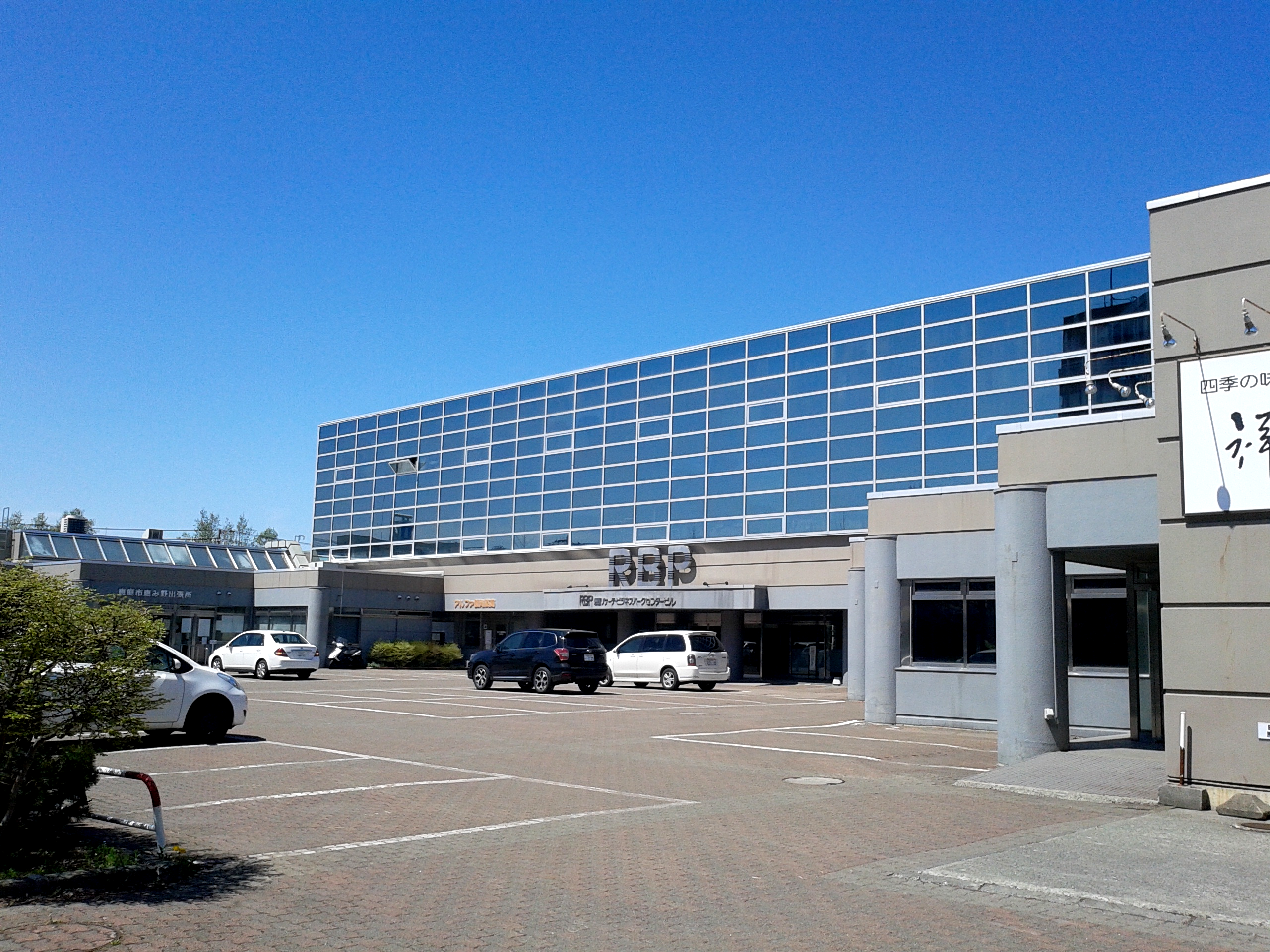 RB Park, a multi-purpose business center and business hotel in Megumino, Eniwa, Hokkaido.